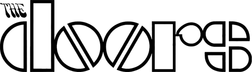 The logo of the rock band The Doors.